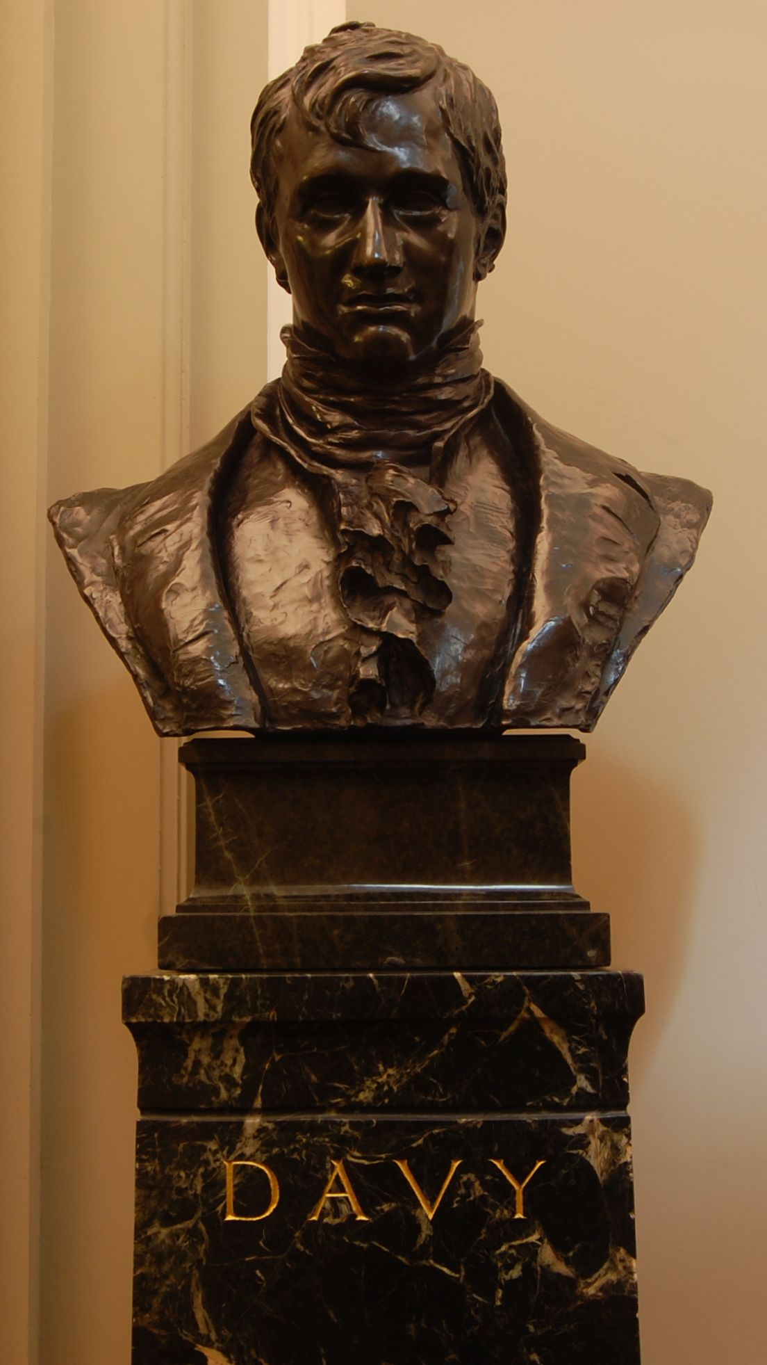 Bust of Humphry Davy, in the collection of the Royal Society of Chemistry, at it's Burlington House, London, headquarters.